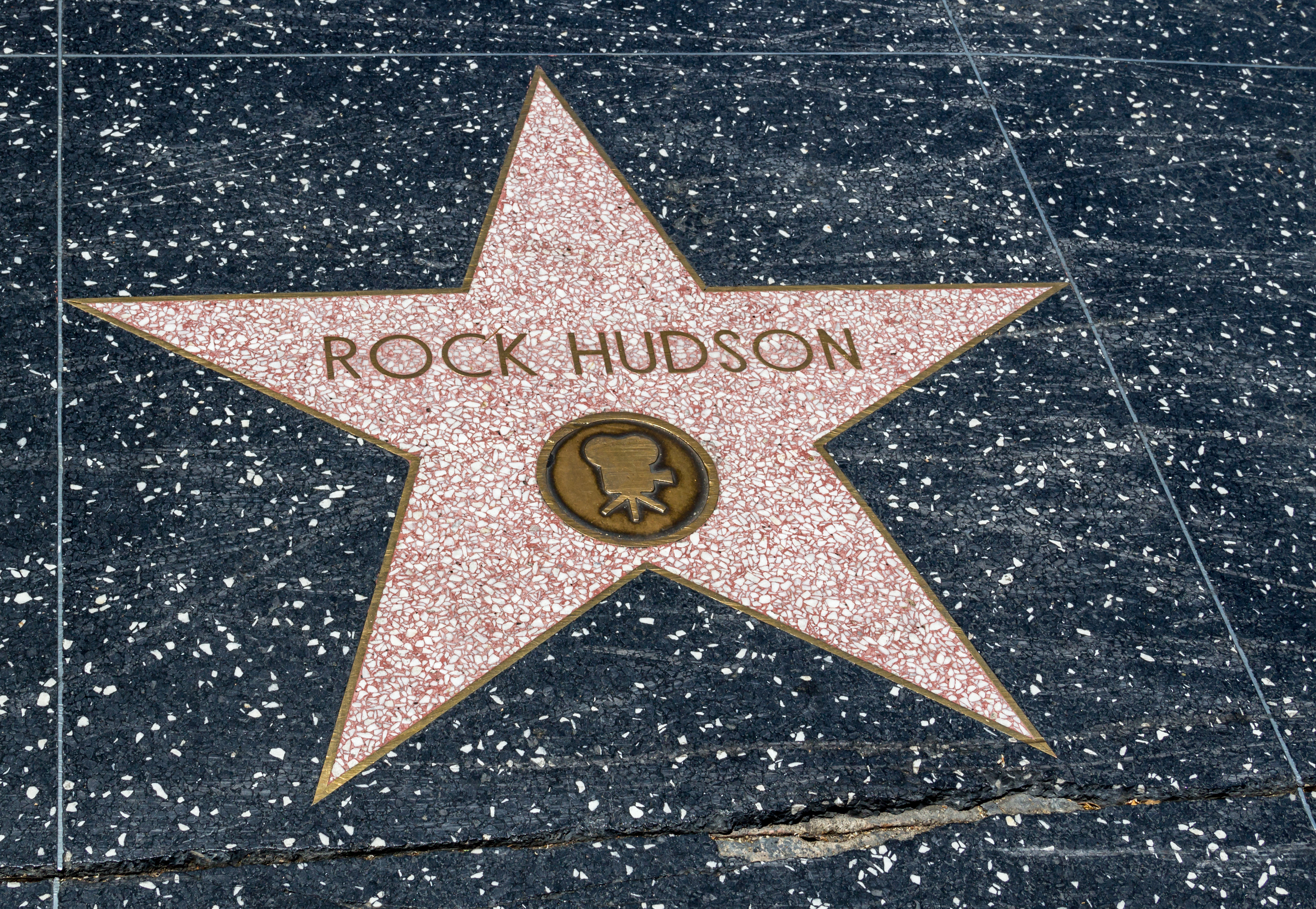 Star “Rock Hudson” at the Hollywood Boulevard in Los Angeles, California, USA